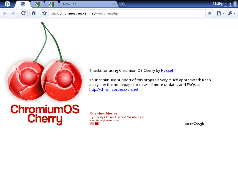 ChromiumOS Cherry on web (play on VMware Player).